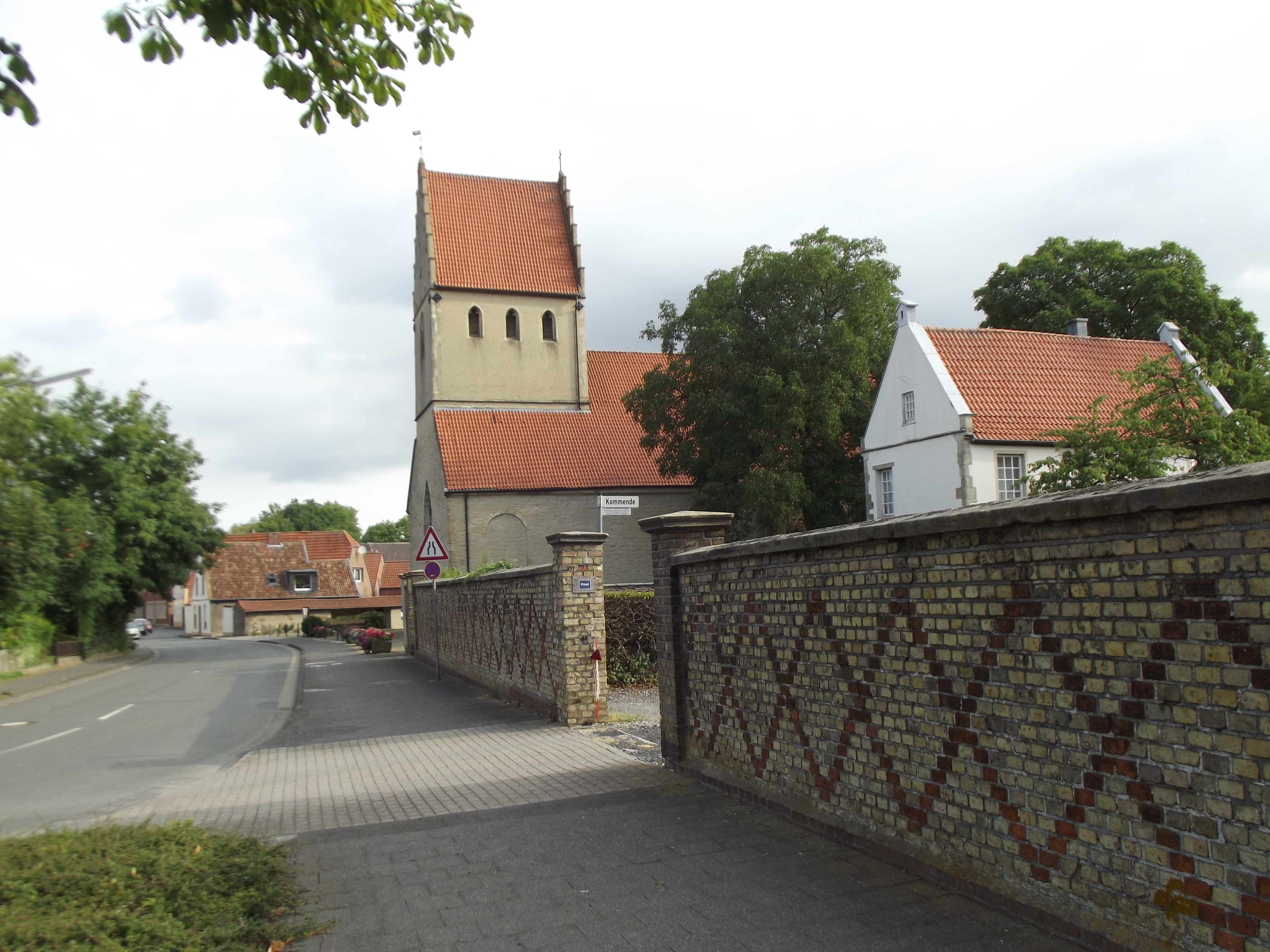 The pic shows a church which is mentioned in the English Wiki article and it also shows the likewise mentioned name "Kommende" on a street sign